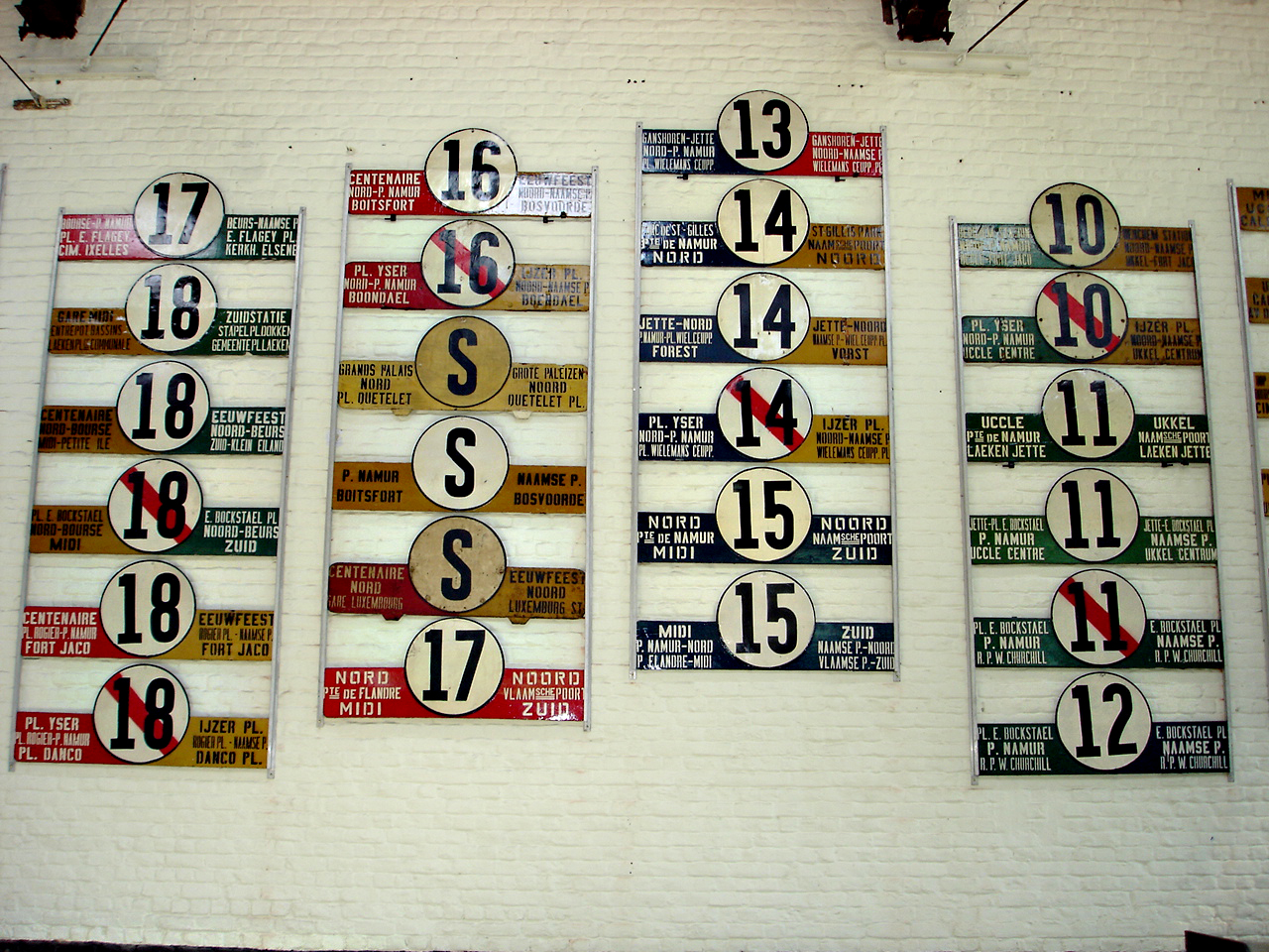 Route plates from former Brussel streetcars